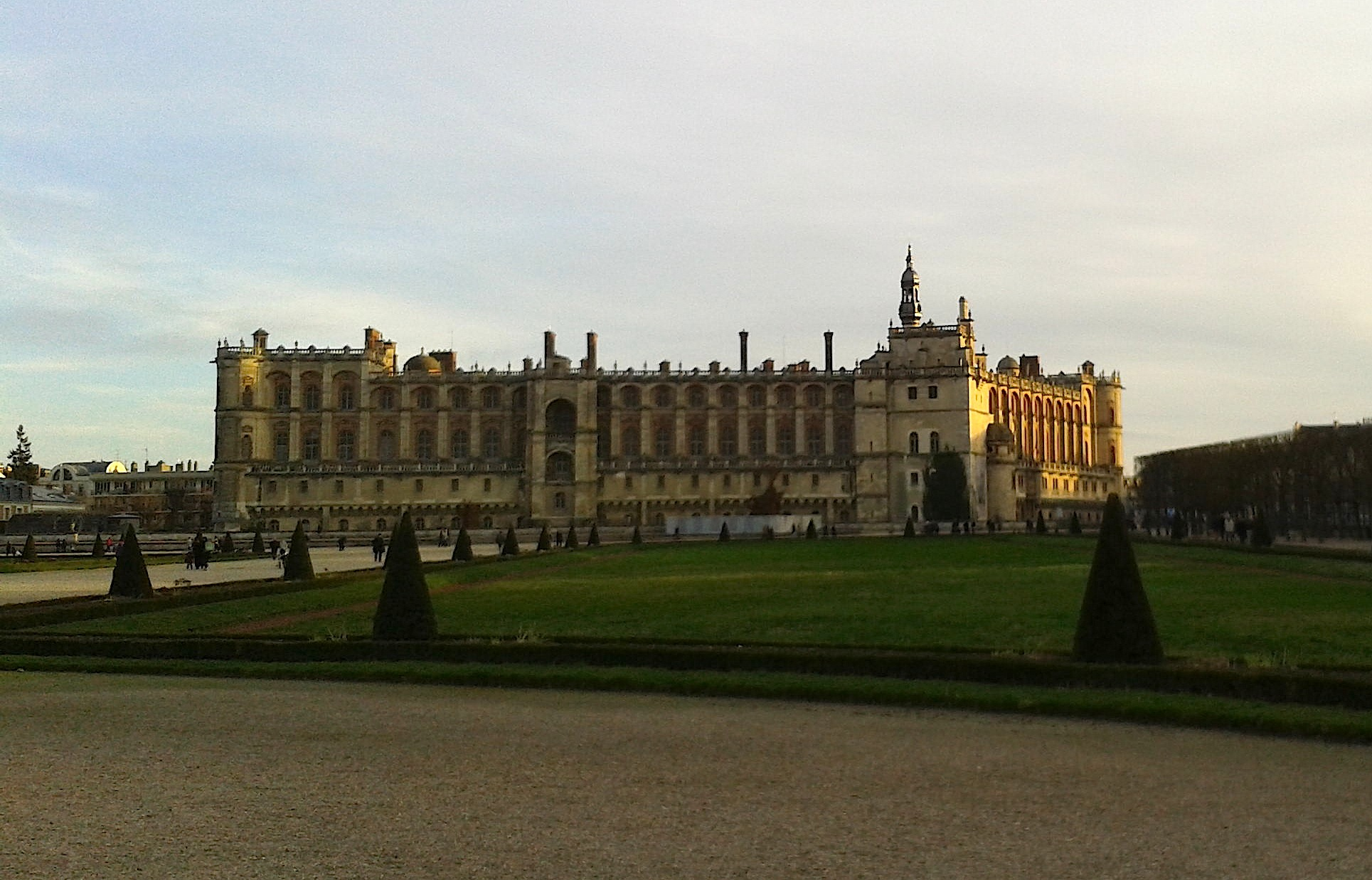 Castle of Saint-Germain en Laye (France - Yvelines)